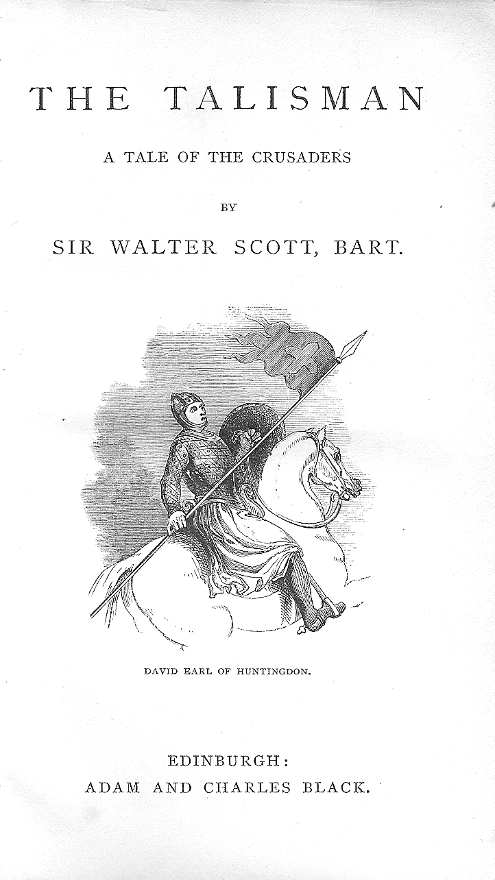 Frontispiece to The Talisman by Walter Scott. Cropped to show printed area cleanly. The same volume also contains a frontispiece to Woodstock. The caption reads "David Earl of Huntingdon", referring to David of Scotland, 8th Earl of Huntingdon. In his introduction (dated "1st July 1832"), Scott states: "Prince David of Scotland, who was actually in the host [of Richard the Lionheart on crusade], and was the hero of some very romantic adventurs on his way home, was also pressed into my service, and constitutes one of my dramatis personæ."